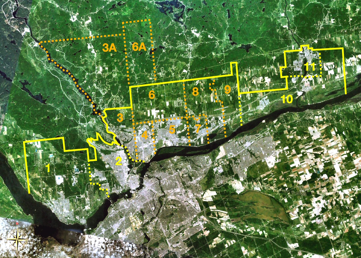 Map of Gatineau, Quebec, Canada, with former municipal boundaries. See also: Image:Gatineau chronologie territoire.jpg.